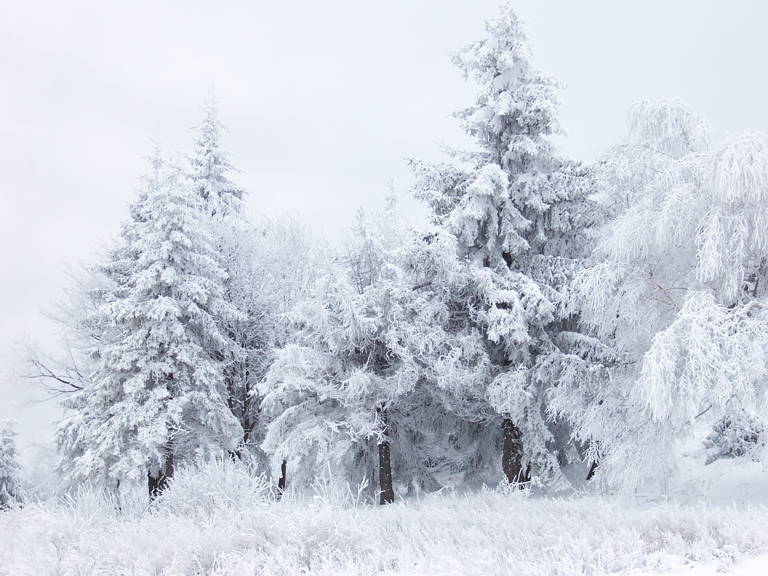 Winter scene taken at Shipka Pass in Bulgaria.